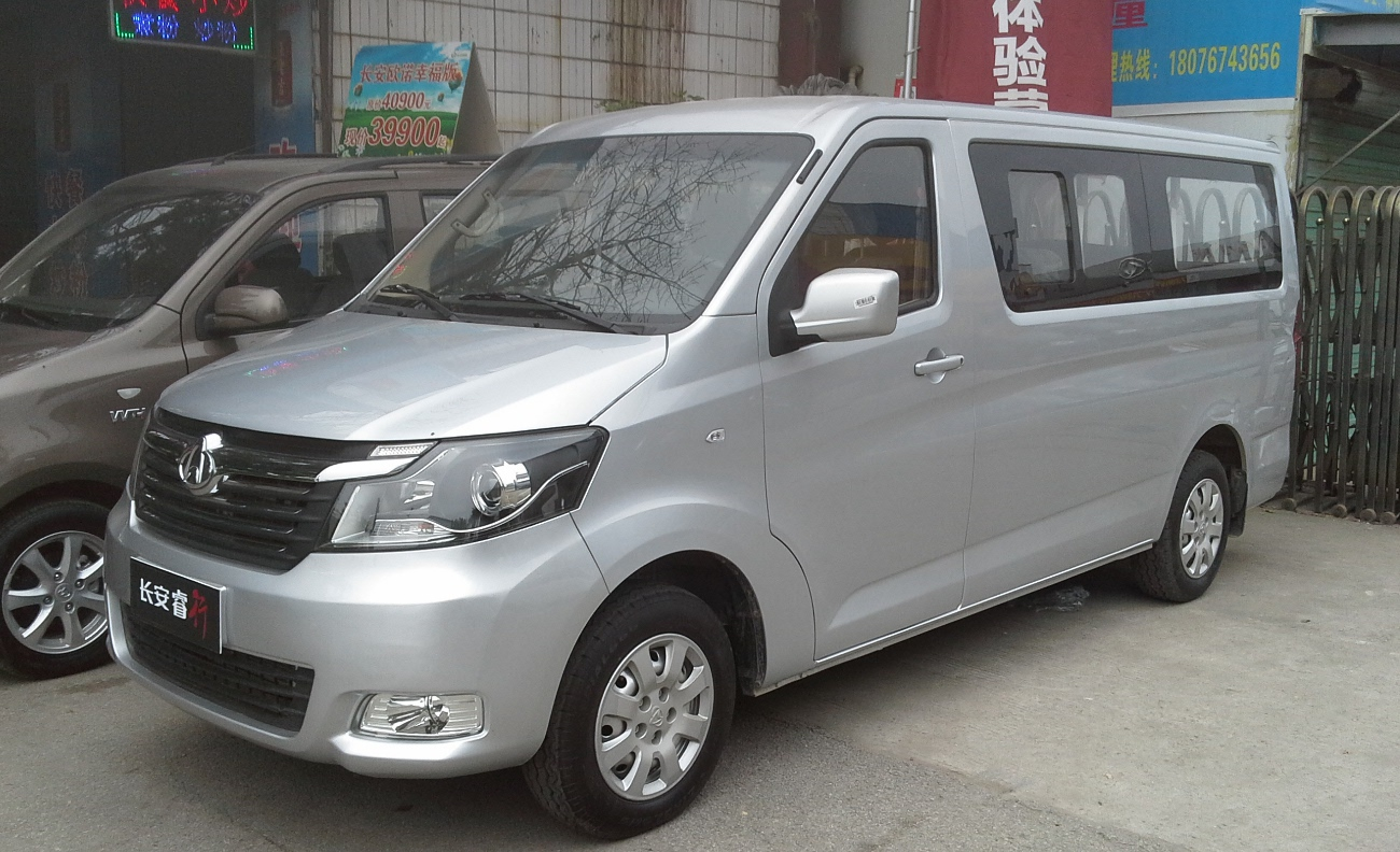 Chana Ruixing photographed in Liuzhou, Guangxi province, China.